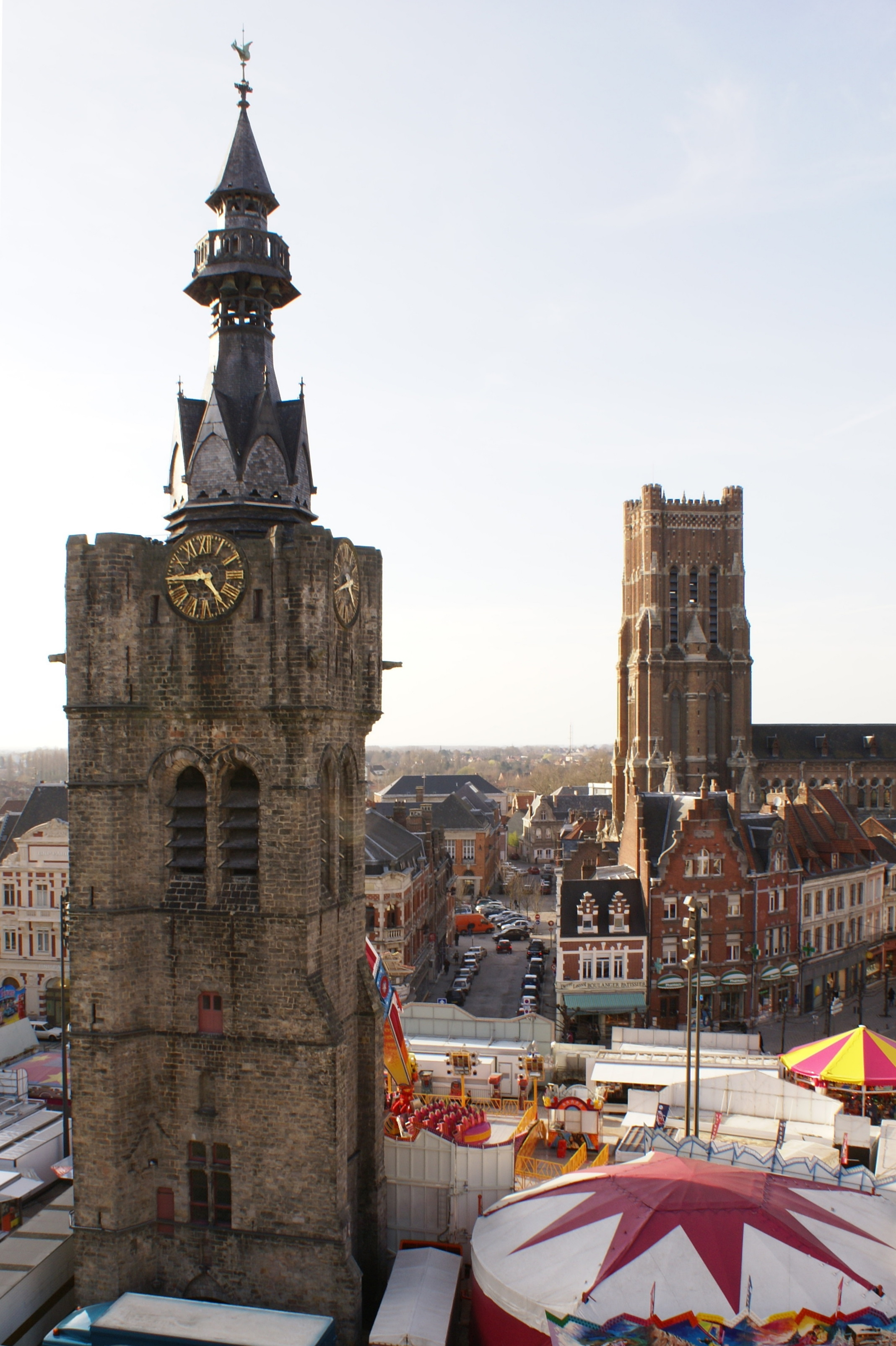 Belfry of Béthune and church Saint-Vaast during spring fair